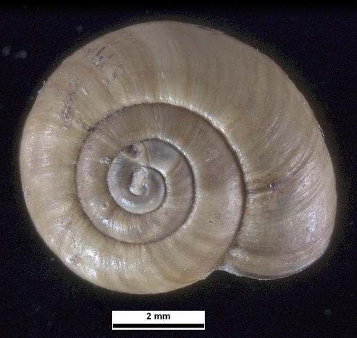 Photo of apical view of the shell of holotype of Notodiscus hookeri heardensis MV (Museum Victoria) F23571.